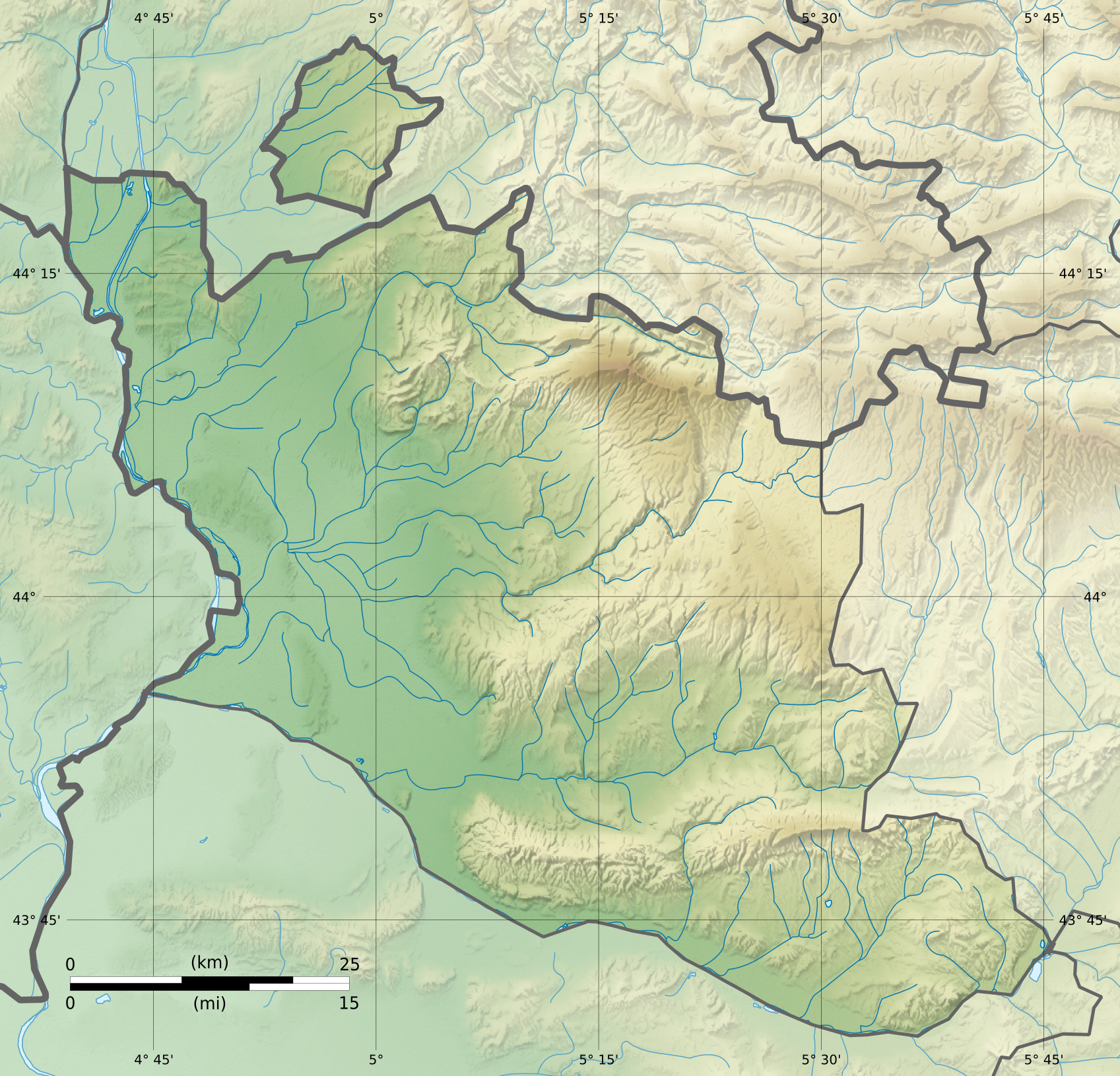 Blank physical map of the department of Vaucluse, France, for geo-location purpose.